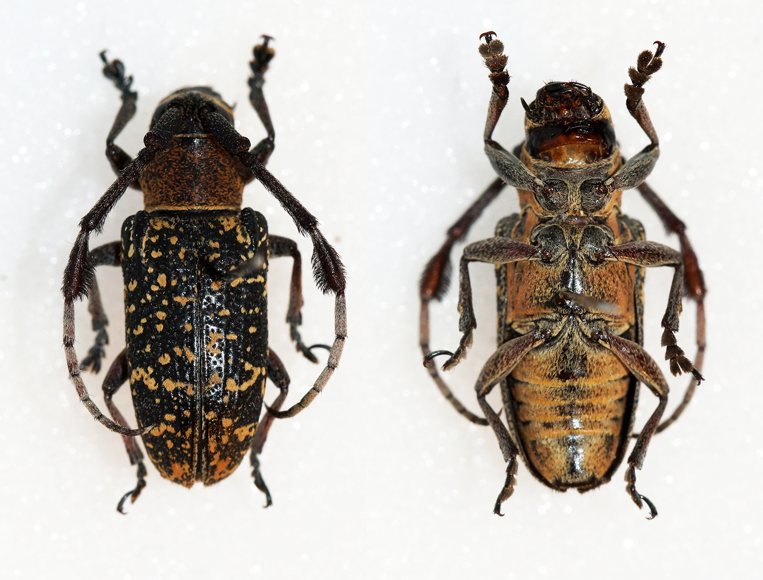 Heller,1924 Sex: ? Data: 05-2015 - Marabut - Samar - Eastern visayas - Philippines Size: 15mm